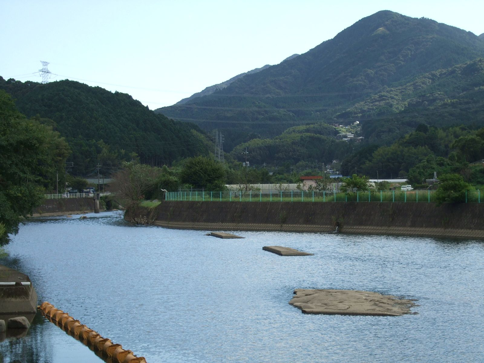 The aqueduct “Sakutano Unade”, Nakagawa Town, Fukuoka, Japan.